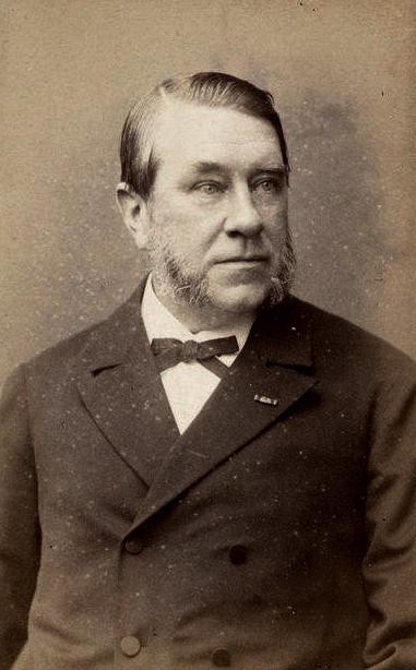 Jean Abraham Chrétien Oudemans' portrait